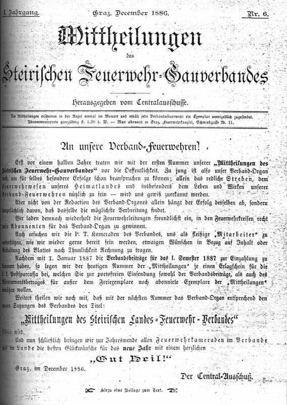 Cover "Mittheilungen des Steirischen Feuerwehr-Gauverbandes", from the styrian Firebrigade-Magazin, anno 1886